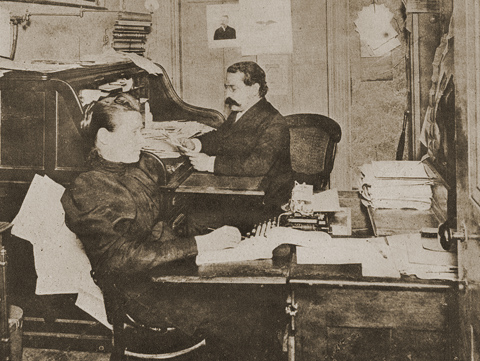 Samuel Gompers in the office of the American Federation of Labor, 1887. Photo published in American Federation of Labor: History, Encyclopedia, Reference Book. Published by the American Federation of Labor, 1919. Published in USA prior to 1923, public domain. Scanned by Tim Davenport for Wikipedia, no copyright claimed.